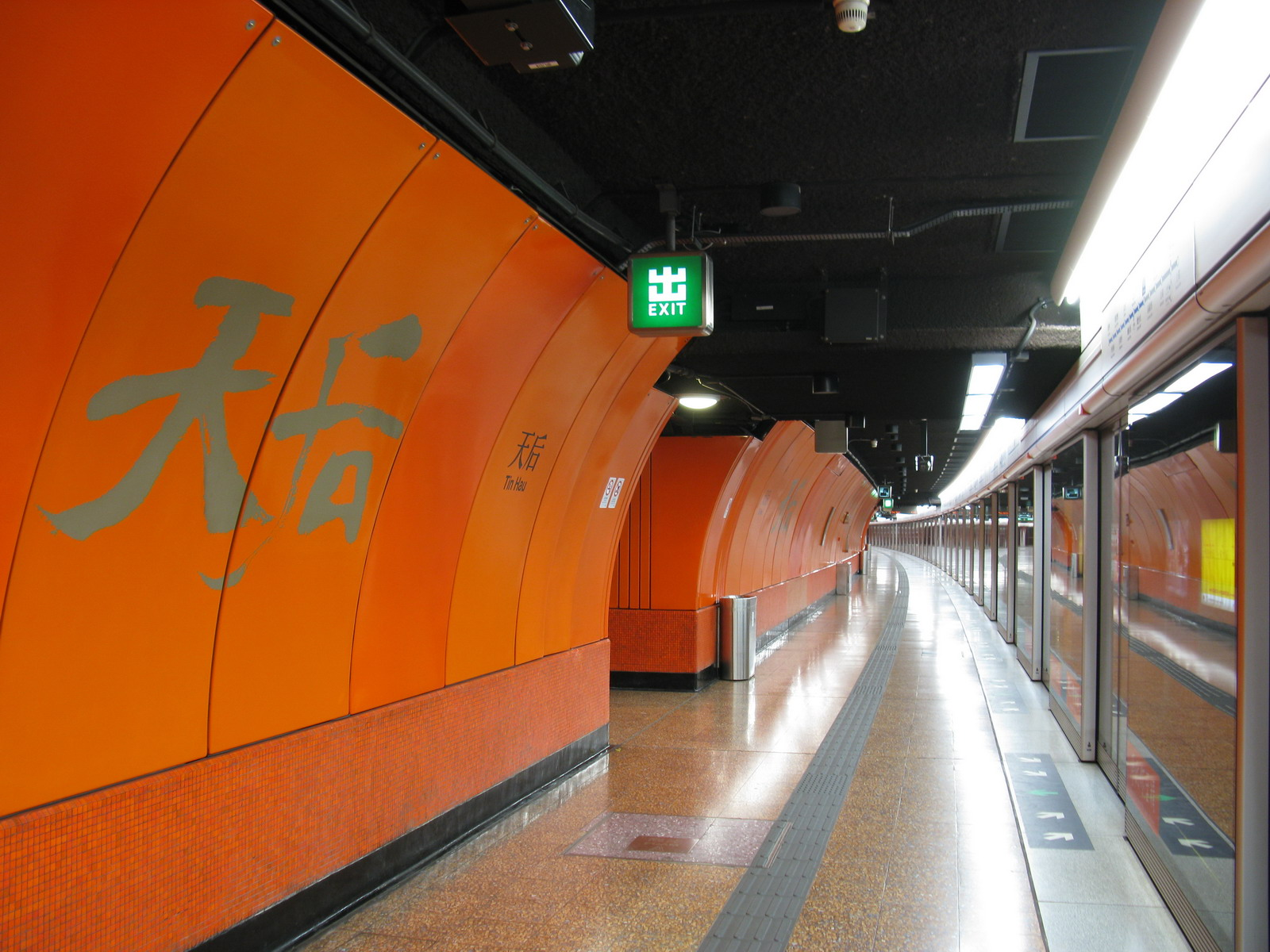 MTR Tin Hau station platform